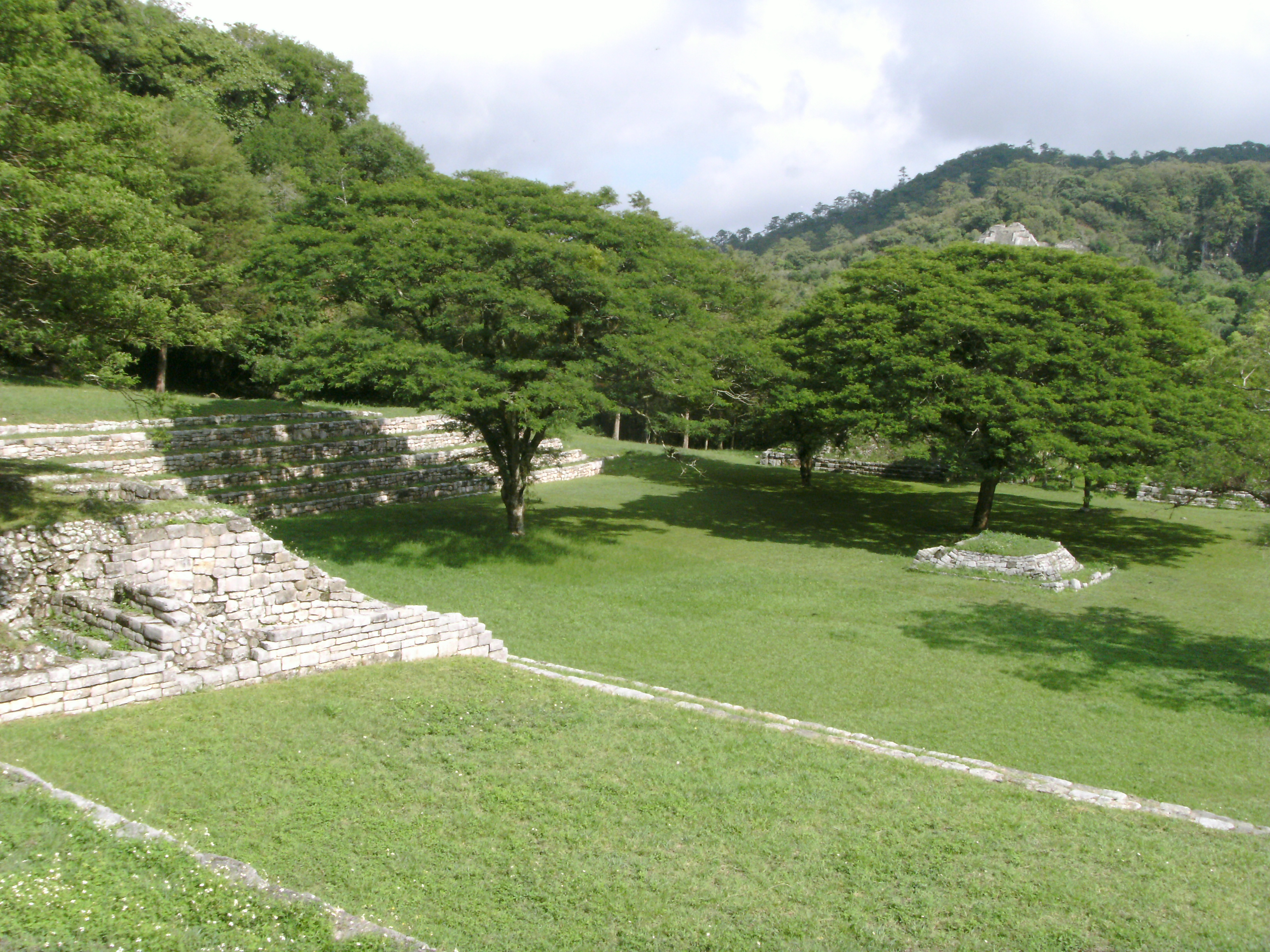 Plaza Hundida, Chinkultic, Chiapas, Mexico